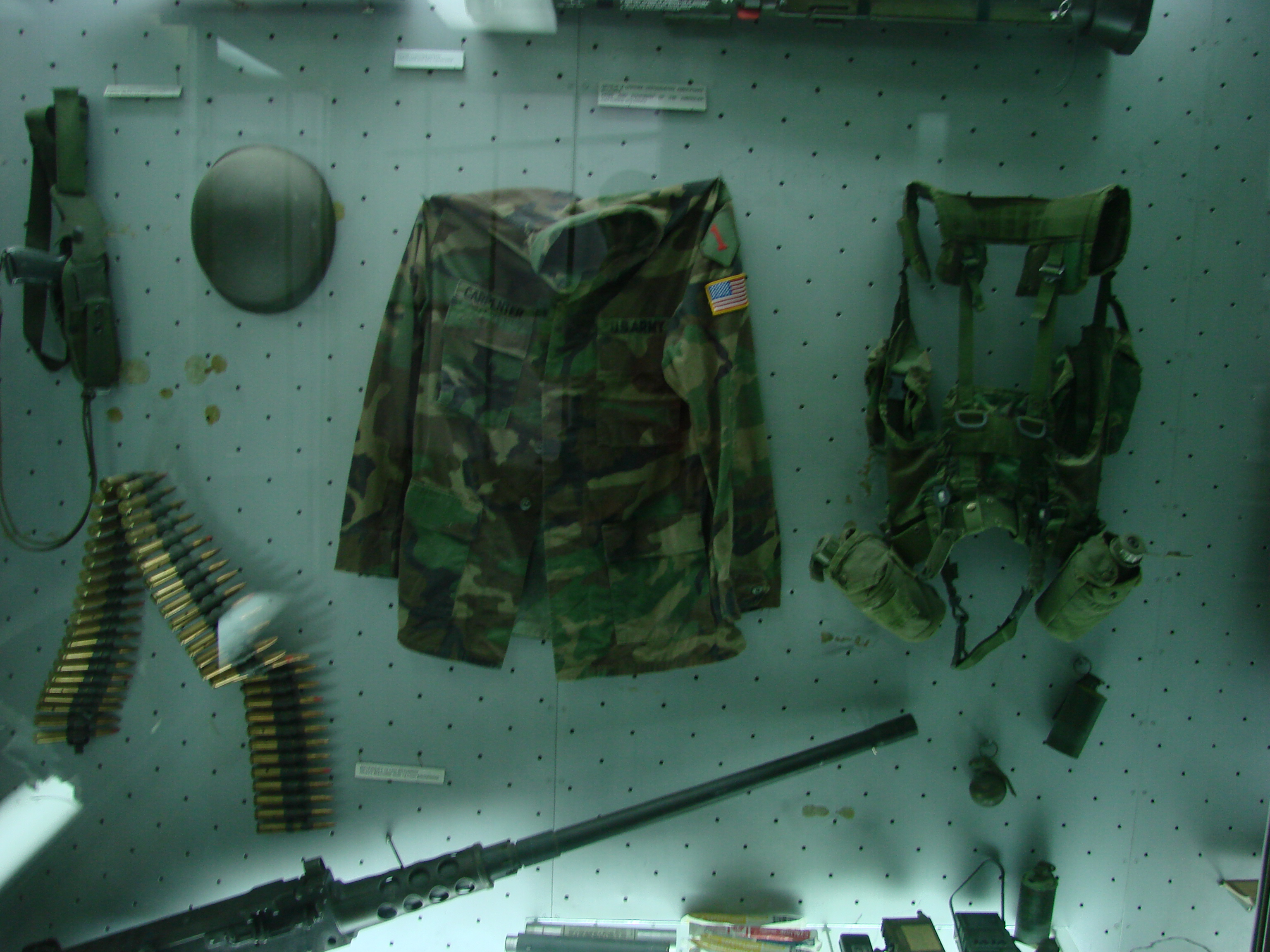 American uniforms and equipment captured by the Serbs during the Kosovo War. This is all on display at the military museum in Belgrade.